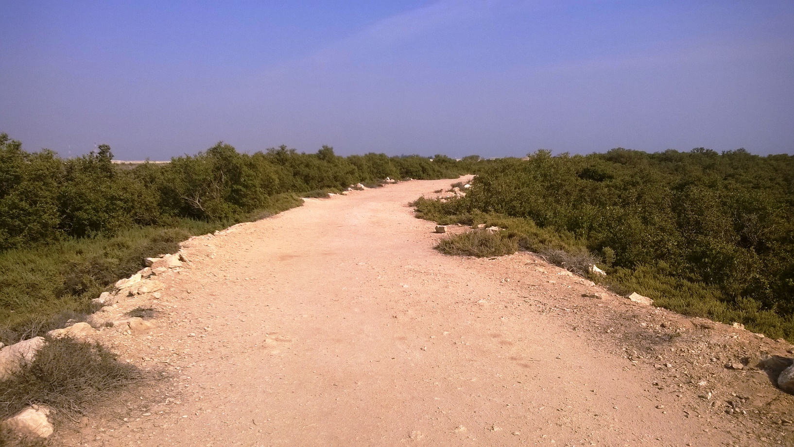 Al khore Mangrove forest (Purpule Island)